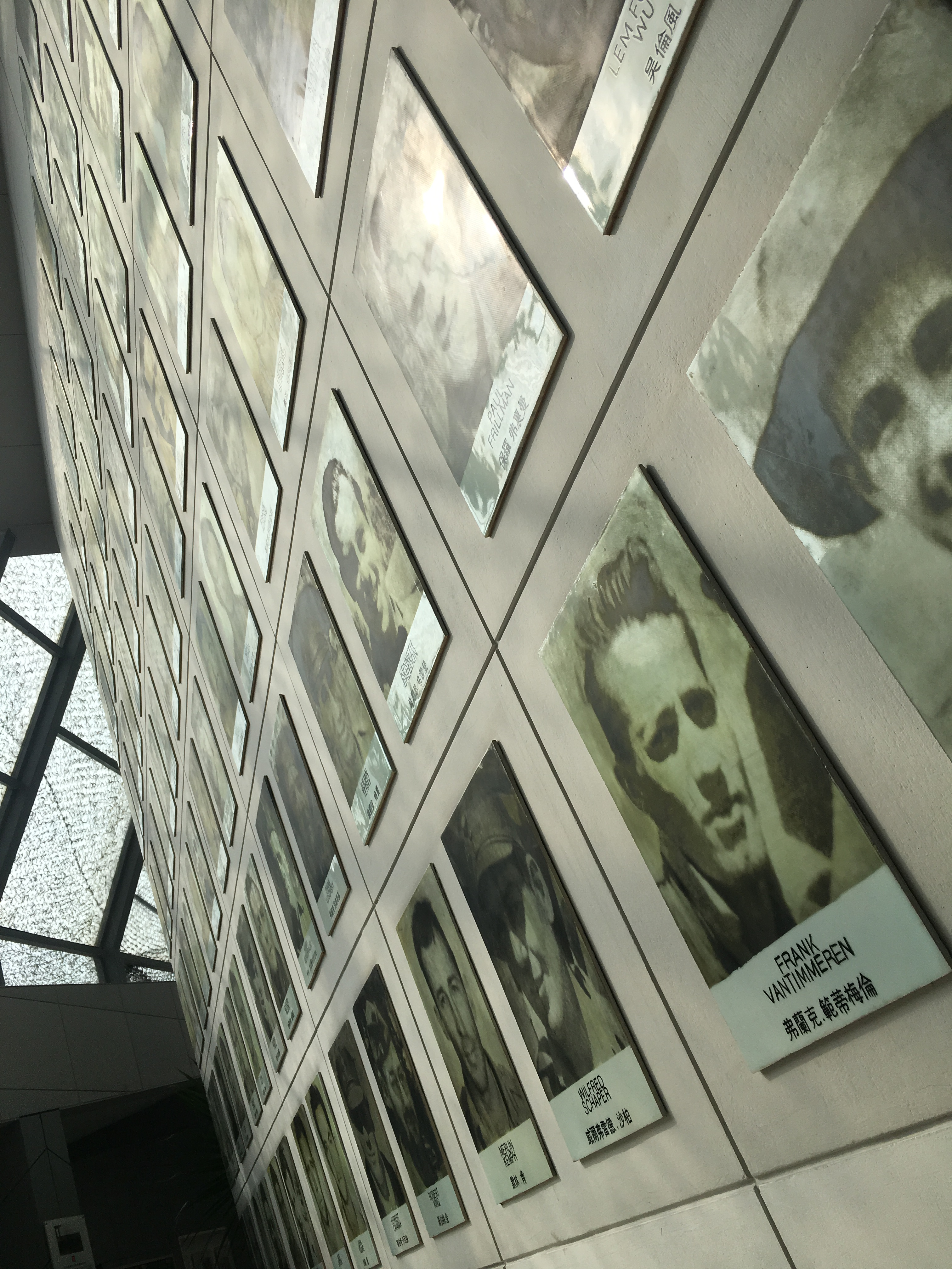 Museum of USA military assistance to CHINA